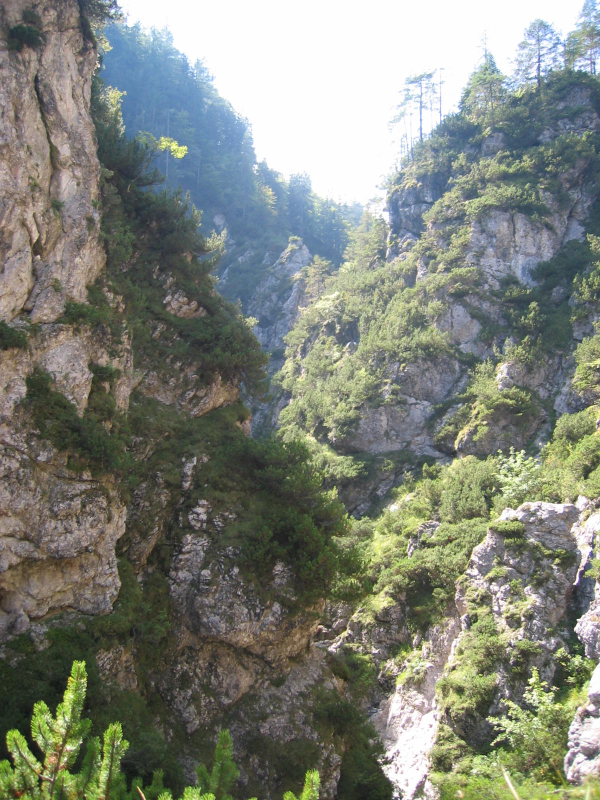 Alpine valley of Mala Pišnica, a tributary to Sava in Slovenia